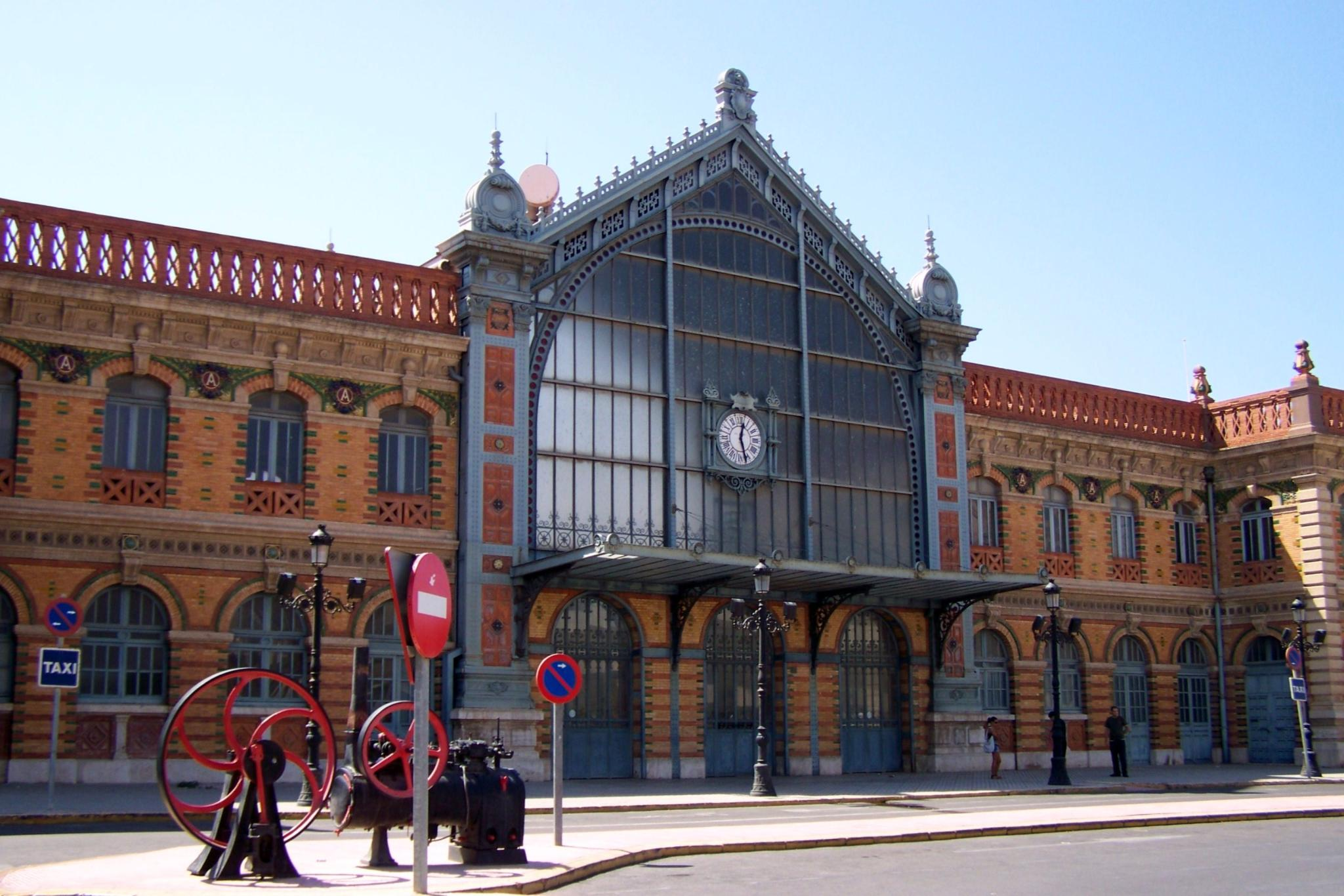 Almería Railway Station, Spain.